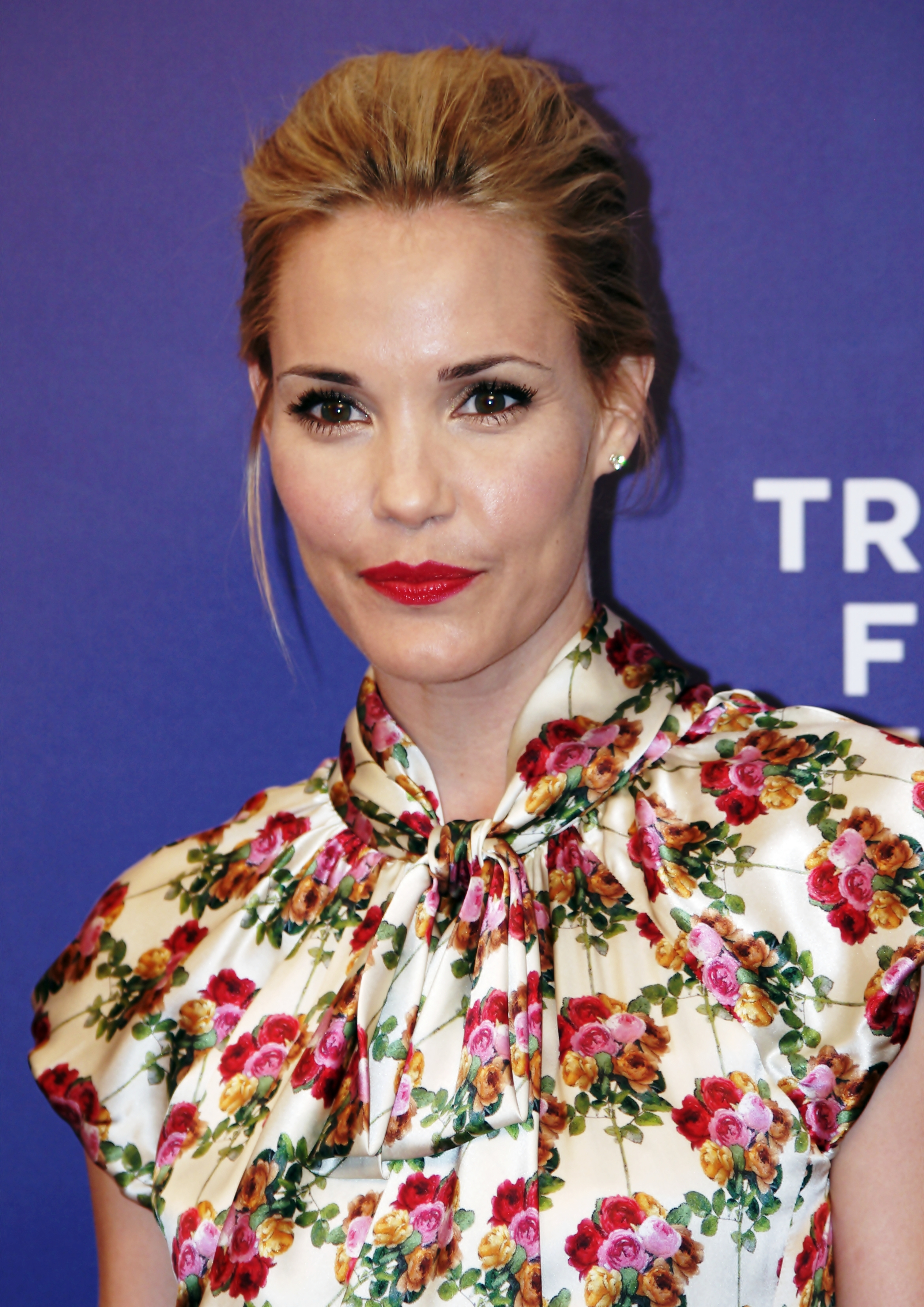 Leslie Bibb at the 2011 Tribeca Film Festival premiere of A Good Old Fashioned Orgy.